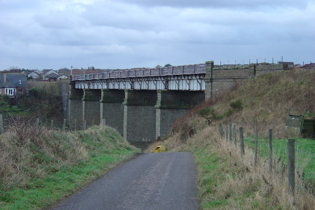 Newtonhill Railway Viaduct. Bridging the Elsick Burn, this stone and iron structure carries the main line between Dundee and Aberdeen. The picture is looking southwest towards the village of Newtonhill, which can be seen in the background.